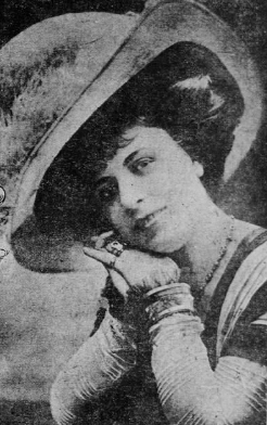 A young white woman wearing a large hat smiles, her hands folded next to one of her cheeks.